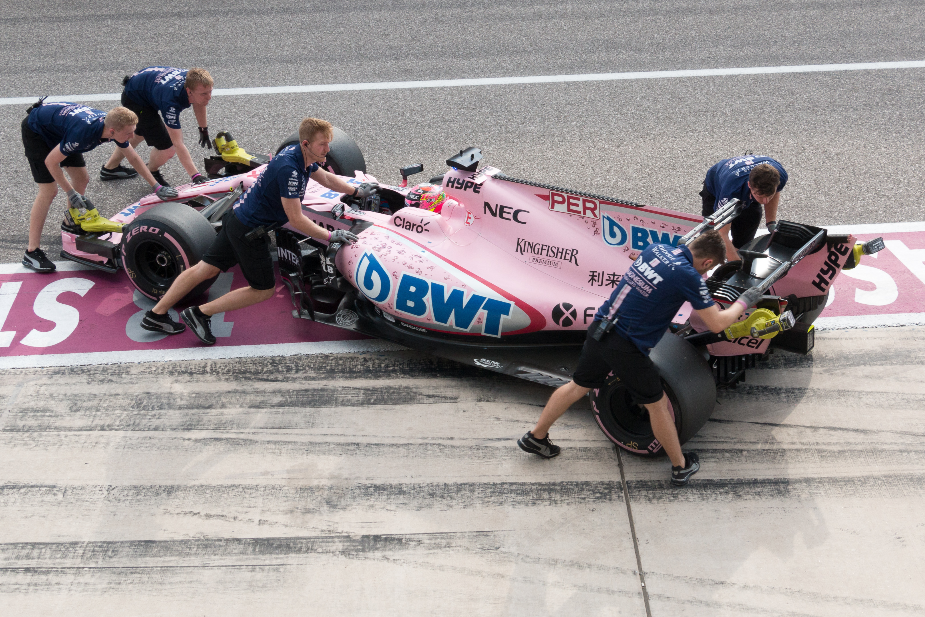 USGP Austin Oct 2017